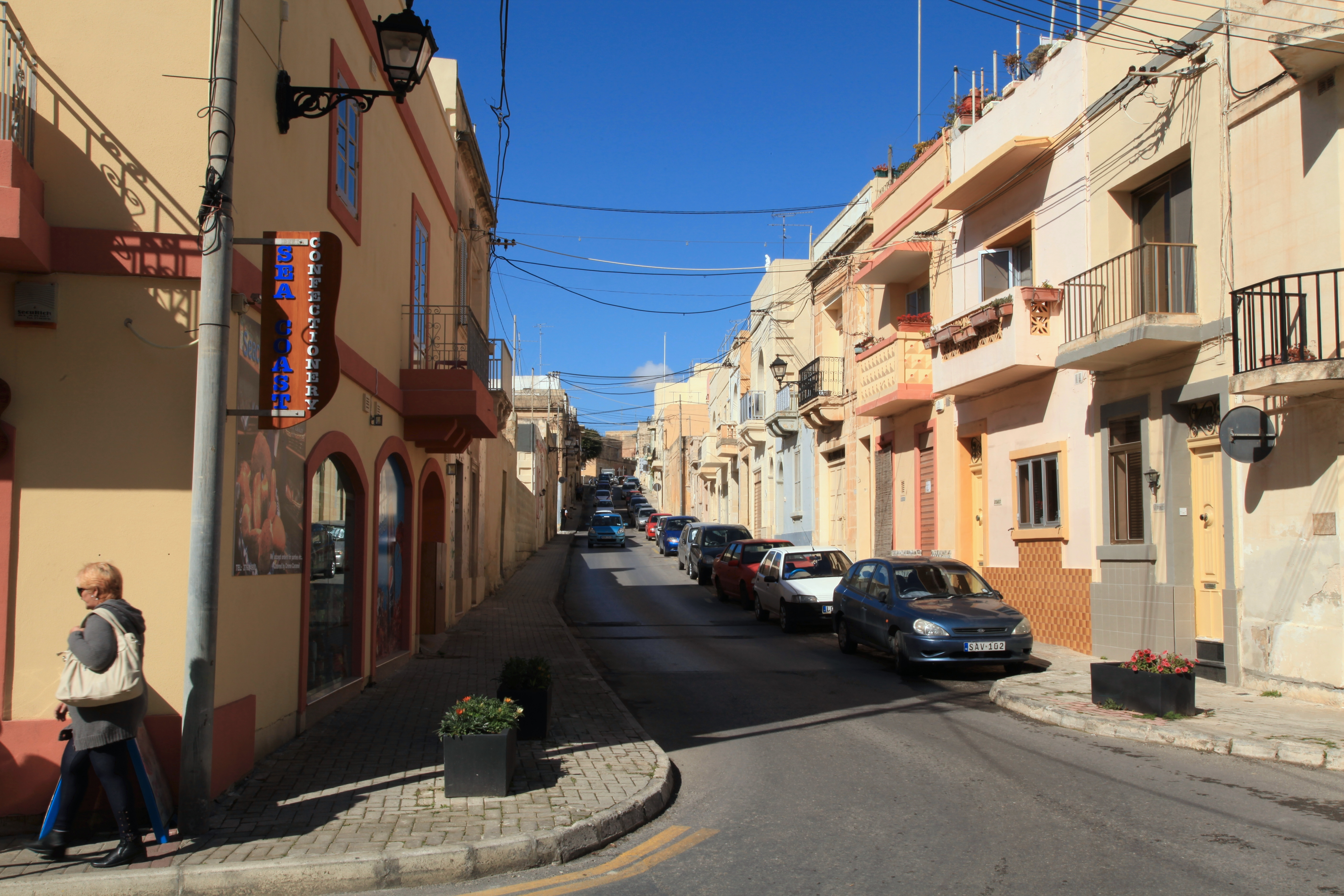 Triq il-Kajjik in Marsaxlokk, Malta